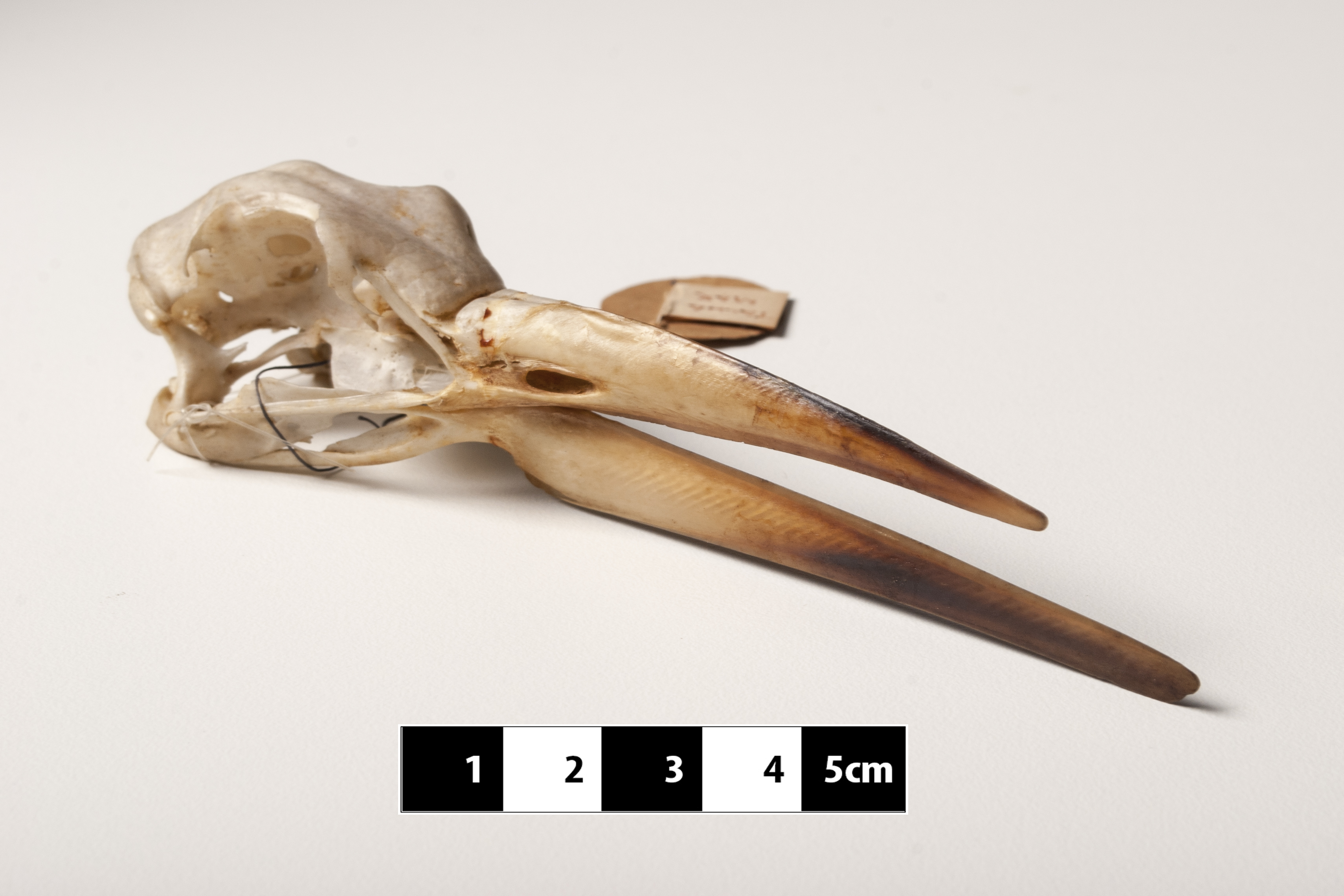 Black Skimmer skull “Rynchops niger” Technique of bone maceration on display at the Museum of Veterinary Anatomy, FMVZ USP.